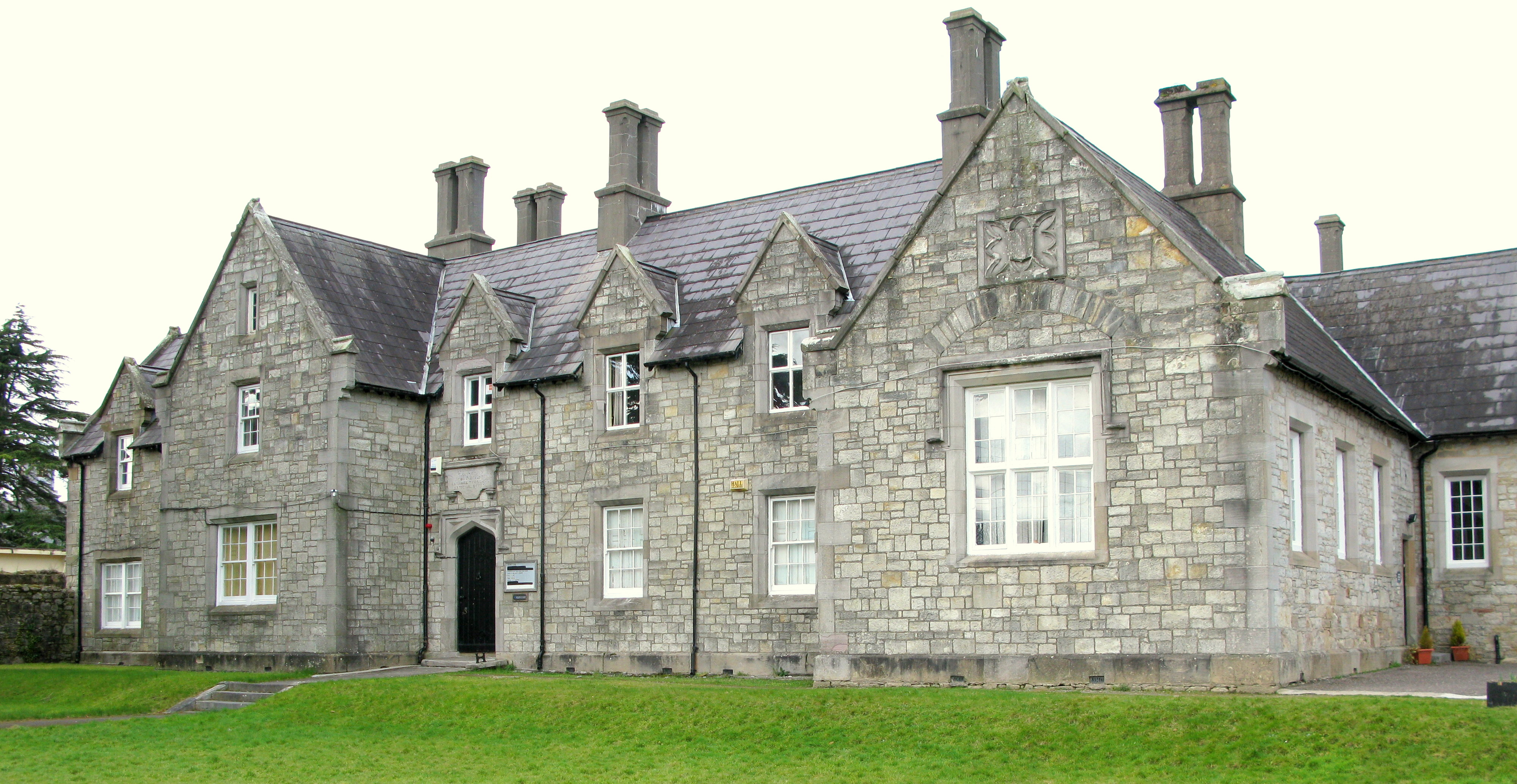 St.Mary's Parochial School (Model School), Western Road, Clonmel, County Tipperary, Ireland. Church of Ireland.